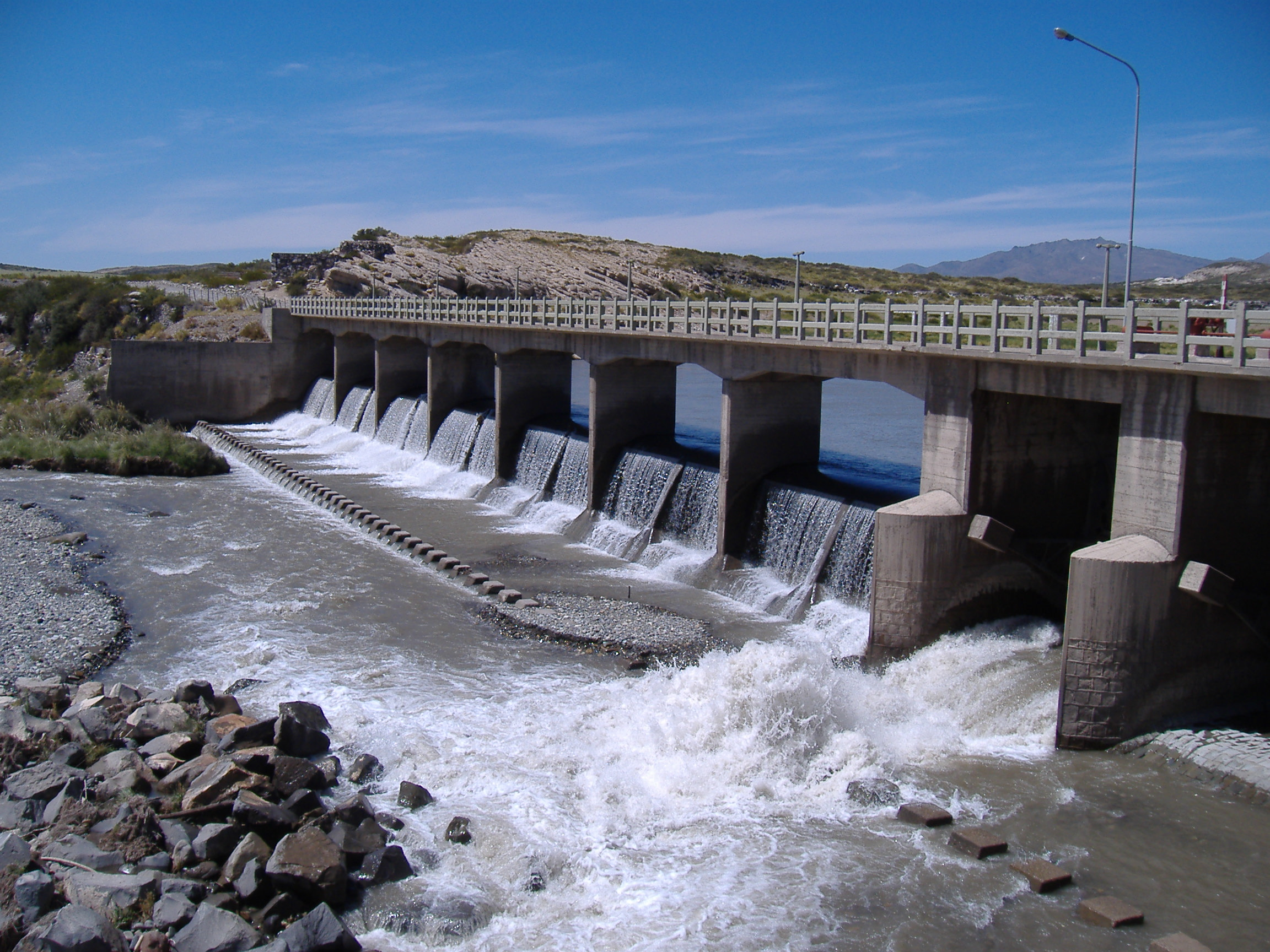 The Blas Brisoli Dam, on the Malargüe River, in Malargüe, Mendoza, Argentina. The dam is used to contain the waters of the river, coming down from the Andes, and derive it for irrigation.